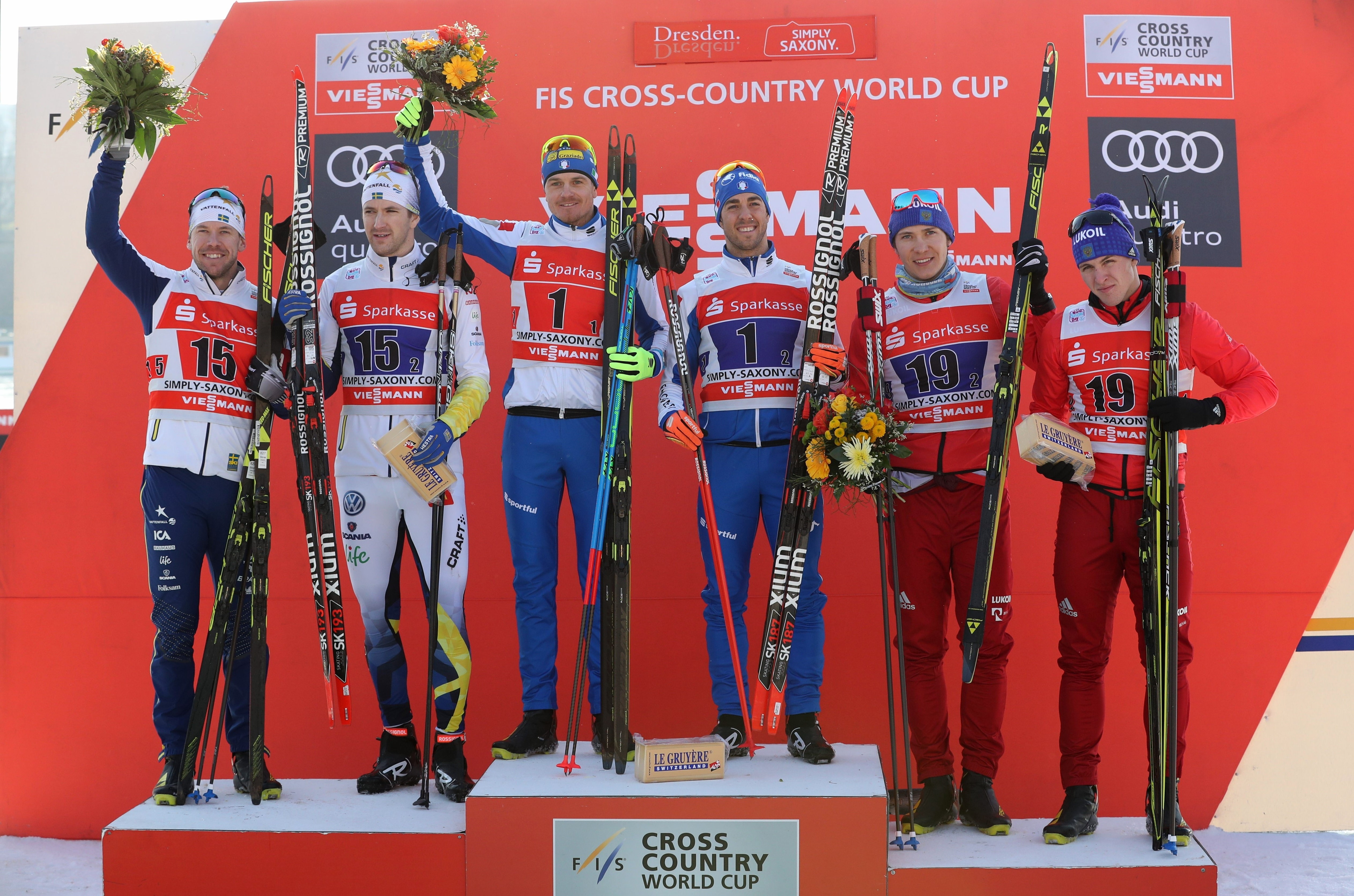 Award Ceremonies of the Team Sprint at the FIS Cross-Country World Cup Dresden 2018: Emil Jönsson, Teodor Petterson, Dietmar Nöckler, Federico Pellegrino, Gleb Retivykh, Andrey Krasnov